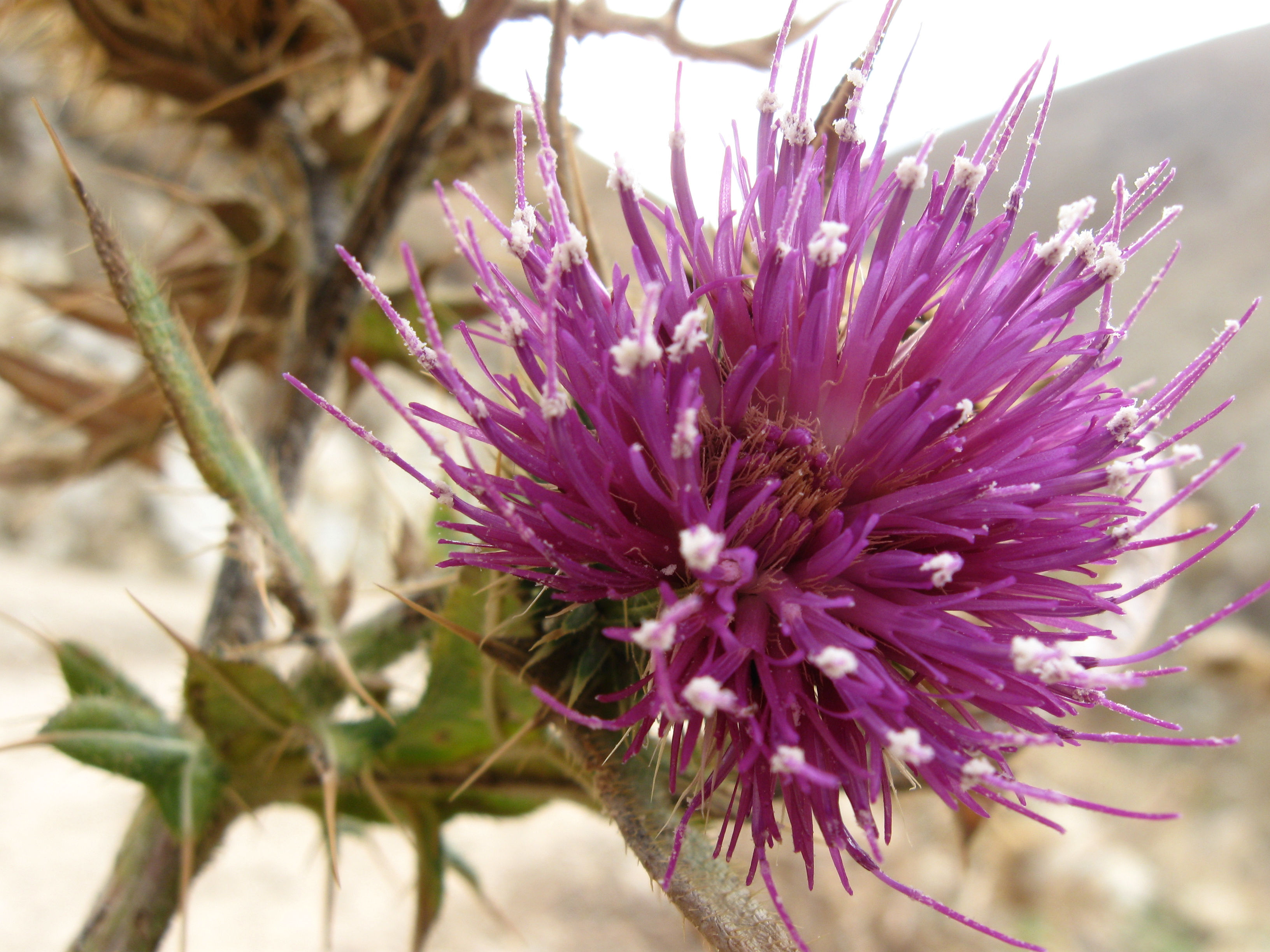 Գտնվում է Շիրակի լեռնաշղթայի Կրաշեն հատվածում